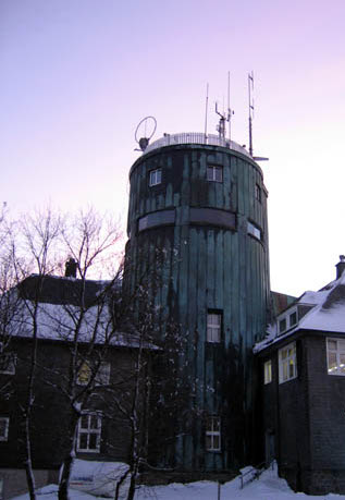 Asten tower, Kahler Asten, Germany